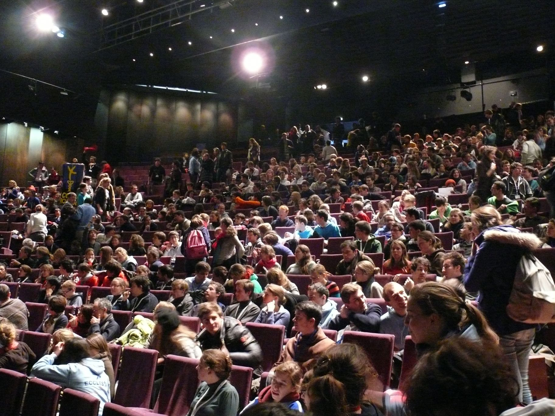 A conference of Ecclesia Campus 2012 in Rennes (Ille-et-Vilaine, Bretagne, France).